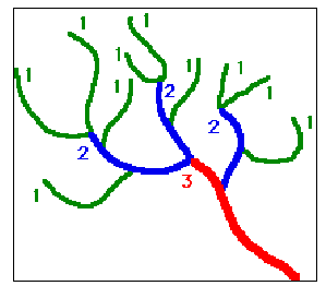 Exhibit prepared in 2001 by the U.S. government agency Corps of Engineers explaining the Strahler Stream Order.